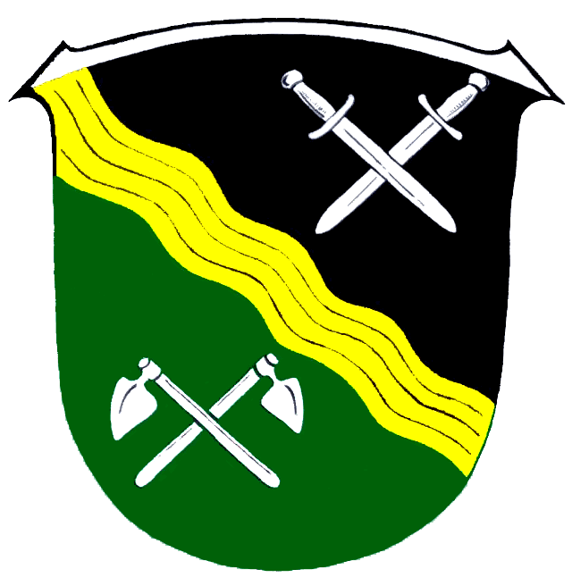 Coat of arms of Kefenrod, Germany